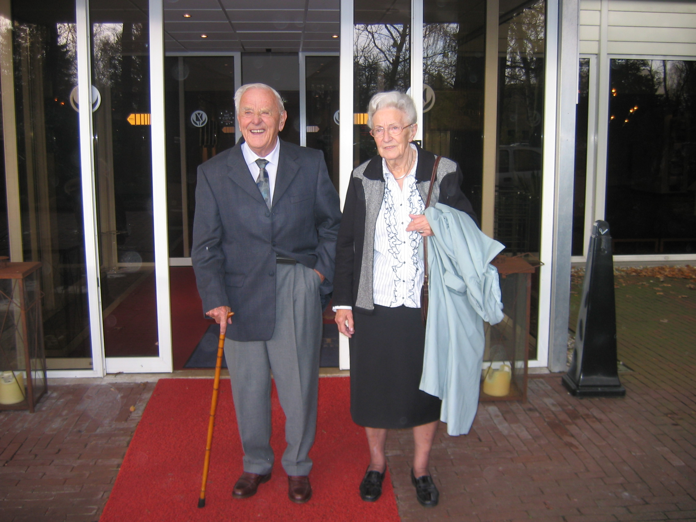 Albert Omta, Elisabeth Omta-Bartels